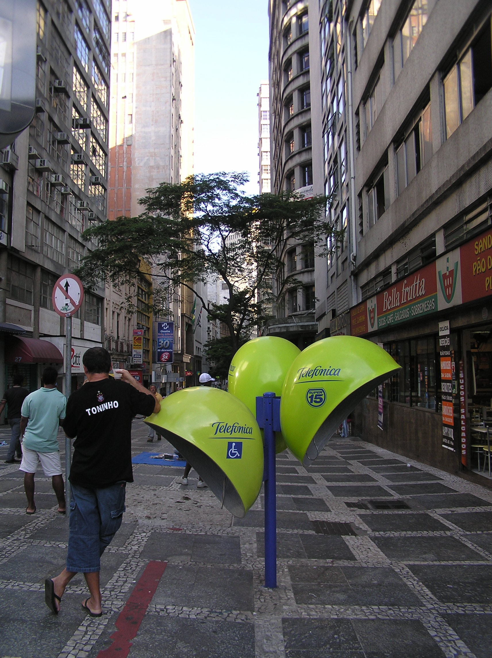 Telephone booth in São Paulo